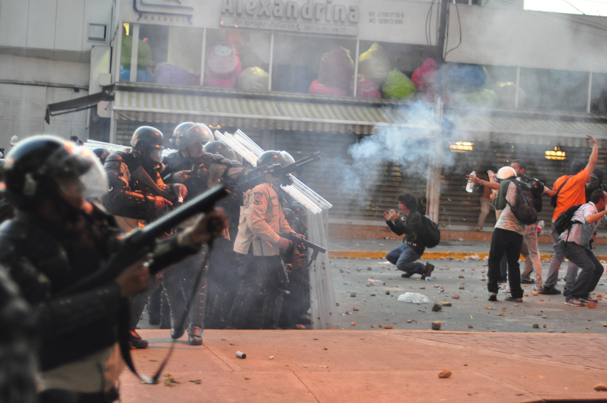 Tear gas, and plastic pellet gunshot used by Venezuela's National Police against a protest in Altamira, Caracas. The image shows distressed students who were peacefully in front of police line at the time of the action. The situation calmed when the majority of protesters managed to convince those throwing rocks to stop. This allowed the peaceful protesters to approach the police. Suddenly a rock thrown from behind the group near the police hit the riot shields and the pictured police action ensued. (Video showing events)